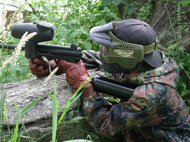 My bro, early in his paintball career. I'm reffing. little does he know there is a sniper aiming at his head A-5 Tippman paintball gun. Good for woodsballing this picture is backwards notice the cyclone feeder is on the wrong side